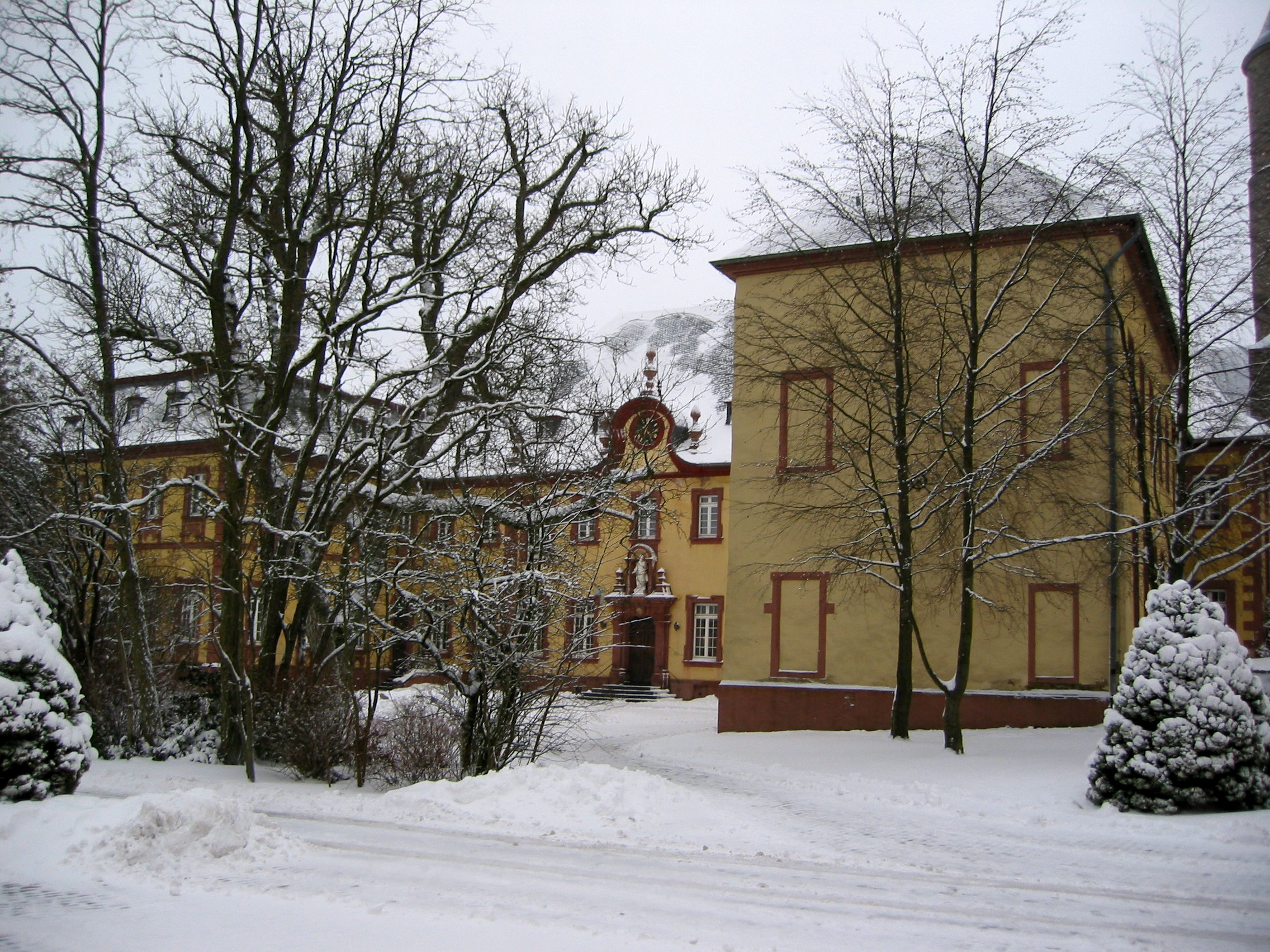 Cloister/convent/monastery Steinfeld in Germany.